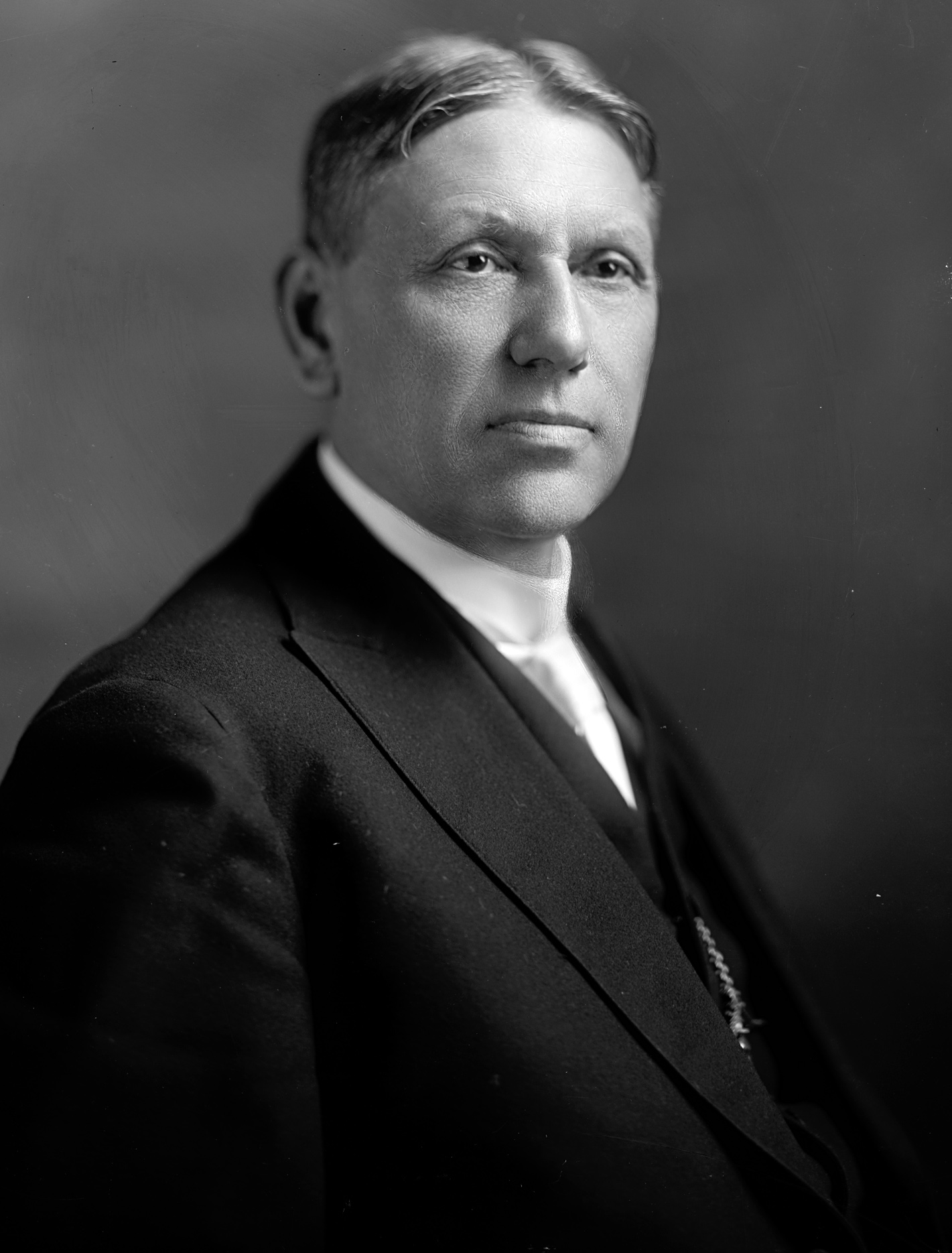 Ira G. Hersey, US Representative from Maine